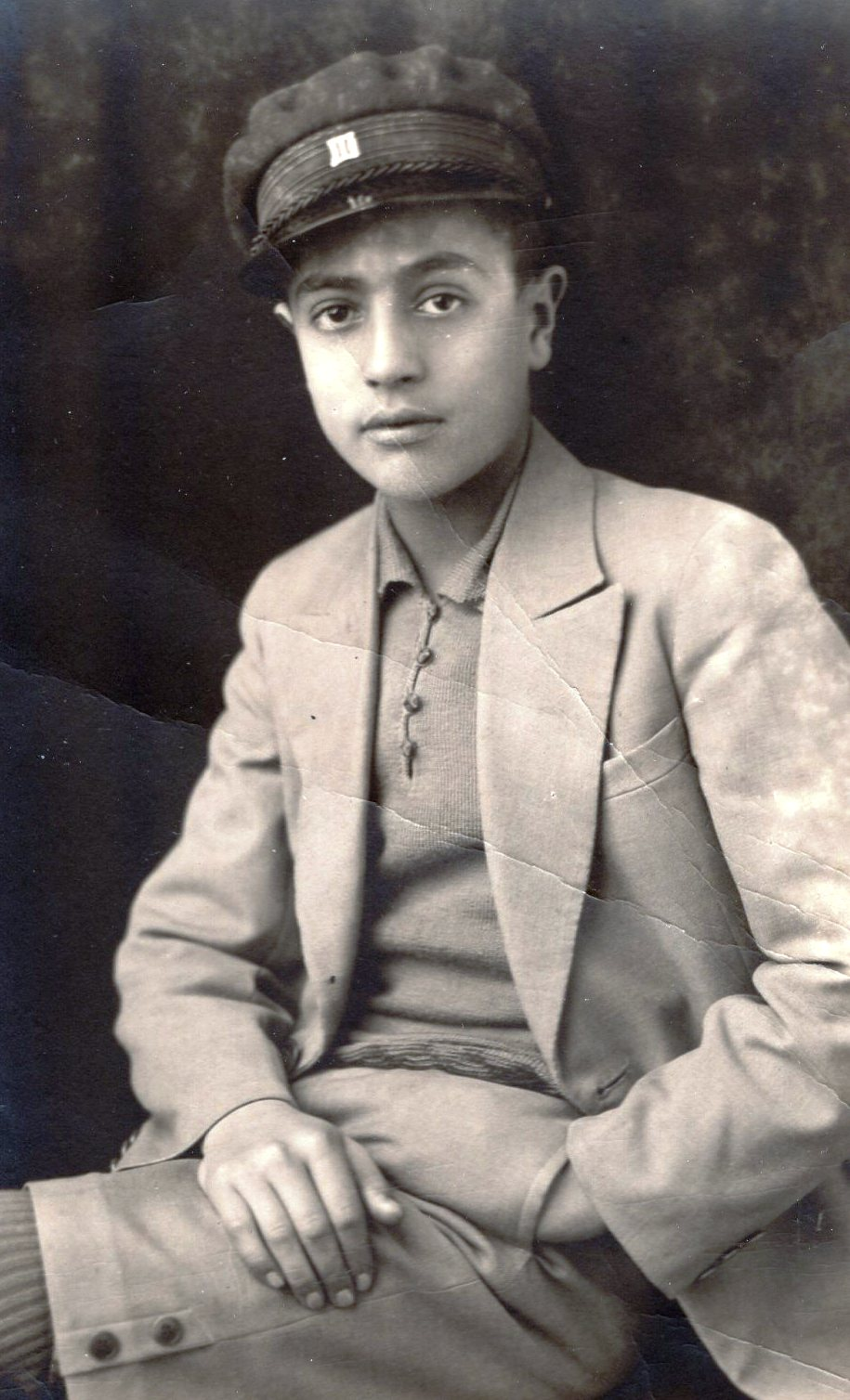 Borka Taleski, as a student This media file is produced by Wikipedian in Residence in Category:Wikipedian in Residence at DARM in 2016.